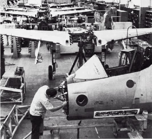 Assembly of McDonnell Douglas A-4KU Skyhawk fighter-bombers in the 1970s.